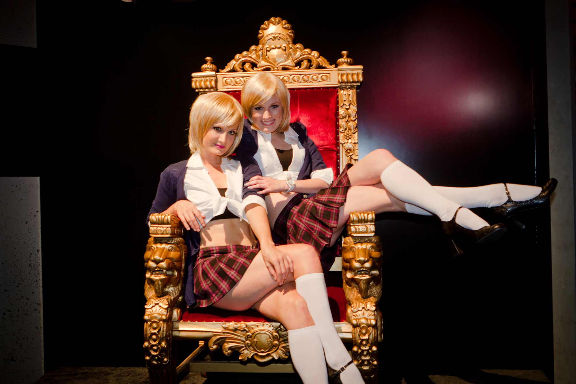 Girls of Electronic Entertainment Expo - E3 2011